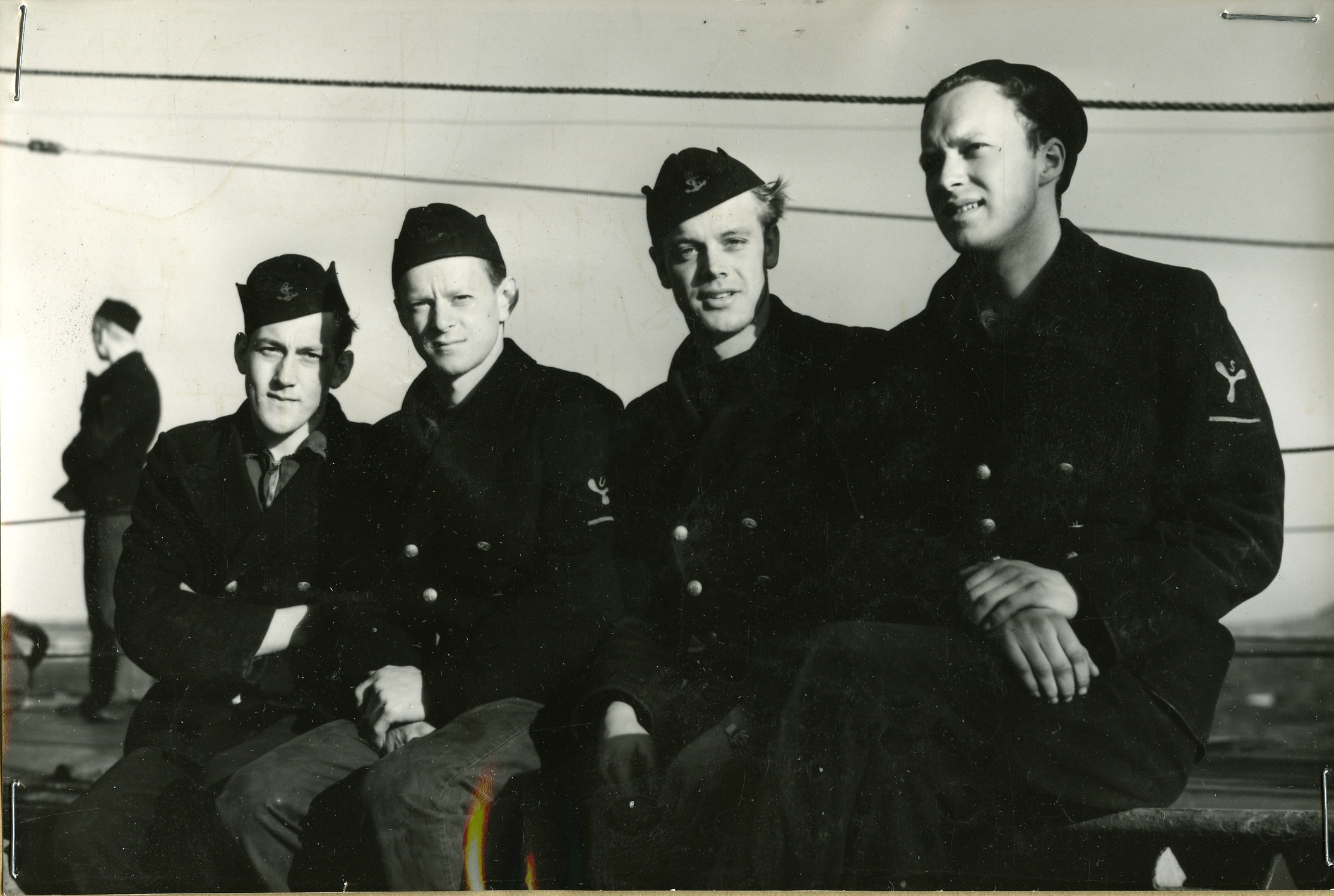 Swedish Navy divers onboard rescueship Belos, waiting for the wind and sea to calm down. Alvar Eriksson, Falun, Hans Näsström, Utansjö, Sten Frisk, Bollnäs och Göte Karlsson, Valdemarsvik